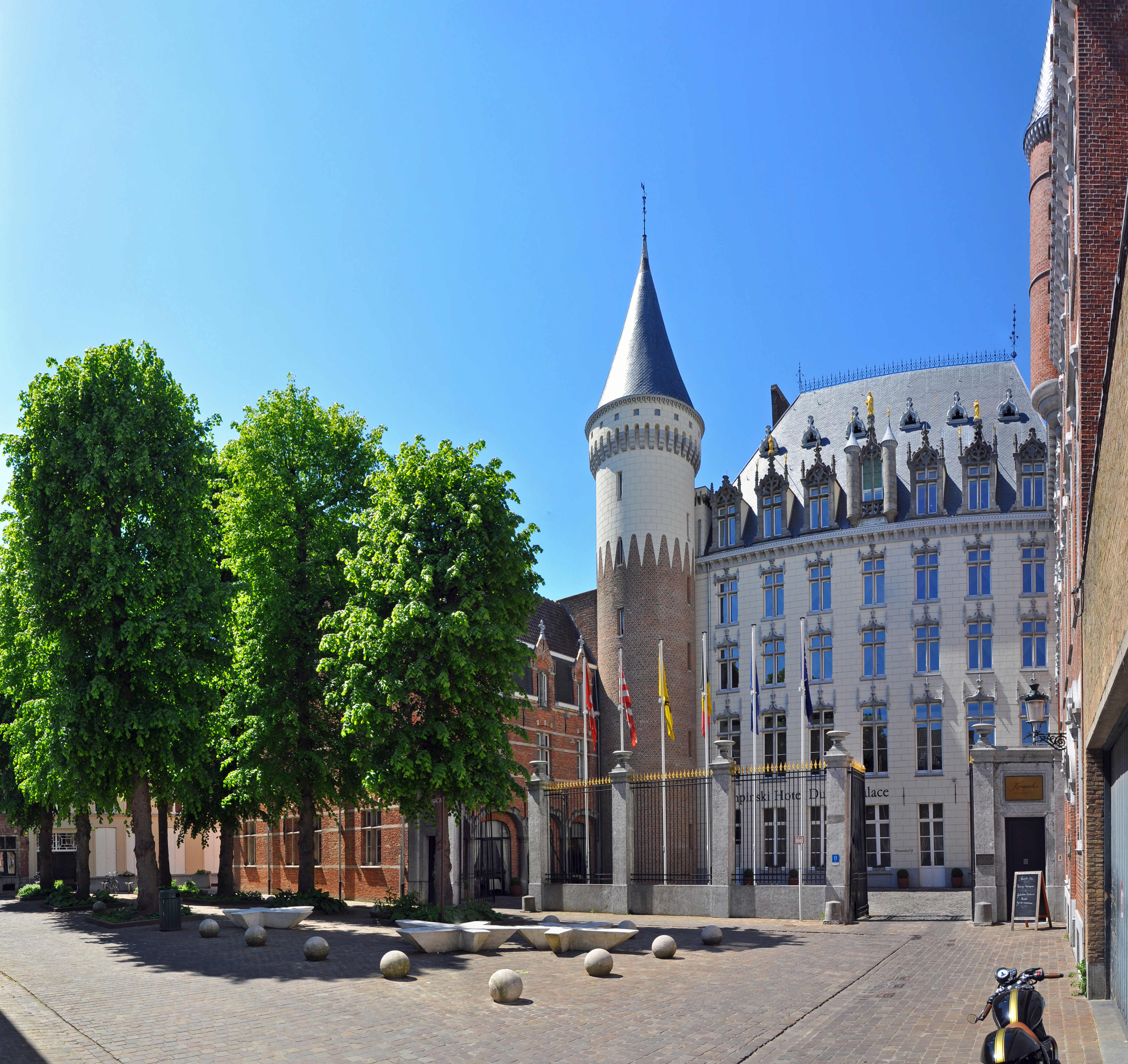 Bruges (Belgium): Prinsenhof